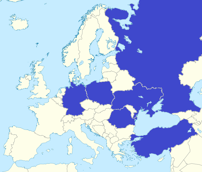 Real hypermarket in Europe